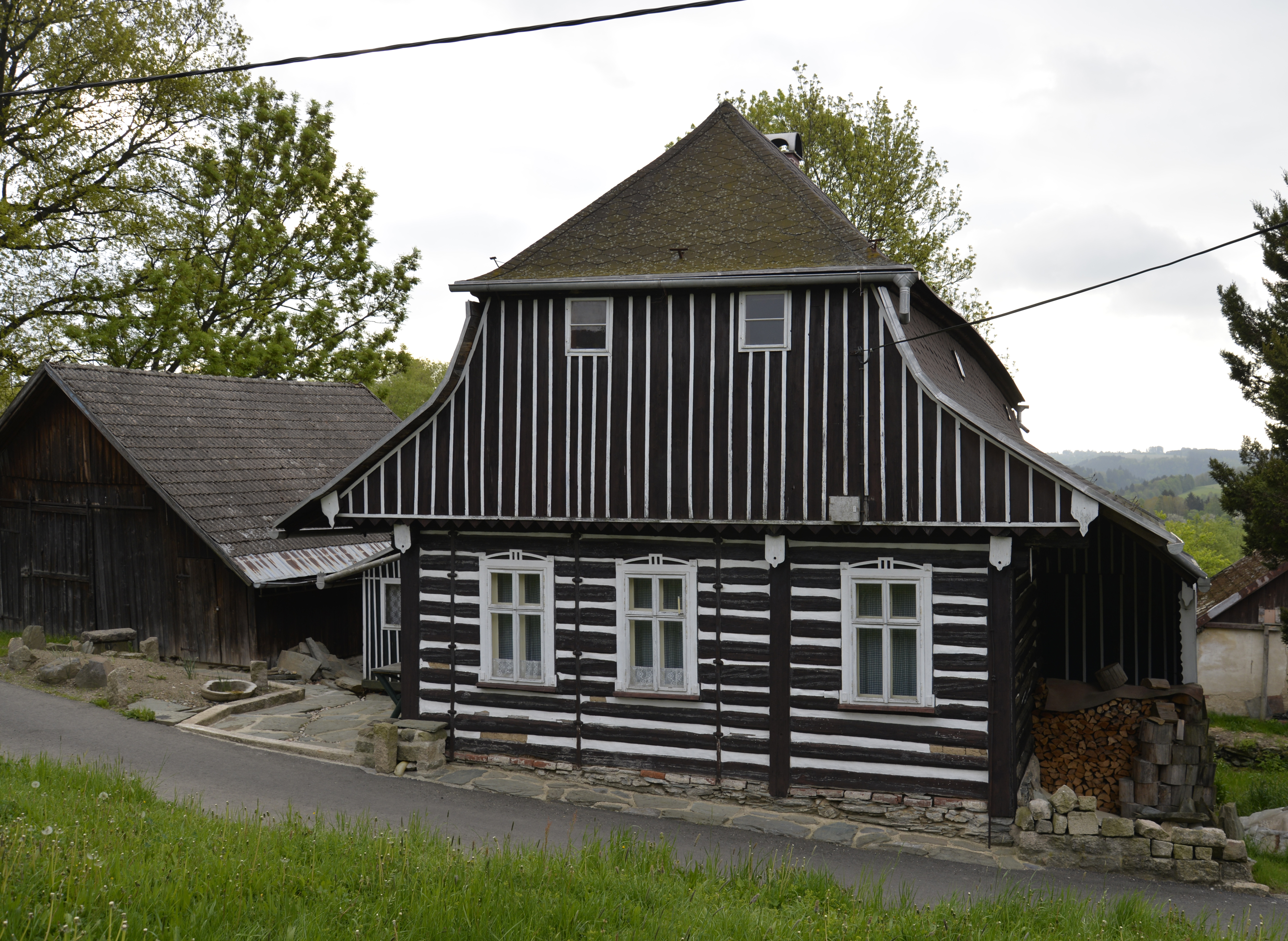 Homestead Horská Kamenice ev. No. 1, Horská Kamenice.